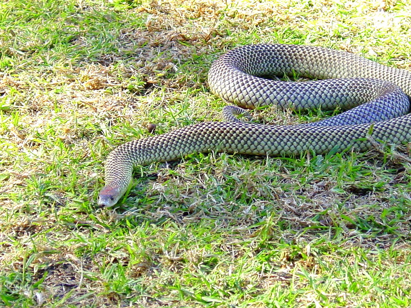 Pseudechis australis, aka the King Brown Snake or Mulga Snake is a venomous snake found in Australia. It is the second largest venomous snake in Australia (after the Taipan) and produces large amounts of venom. Although the name implies it is a brown snake, it is in fact part of the black snake genus.